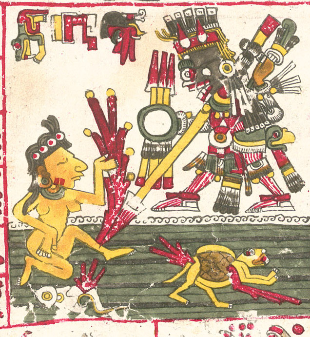 Tlahuizcalpantecutli — an Aztec god.